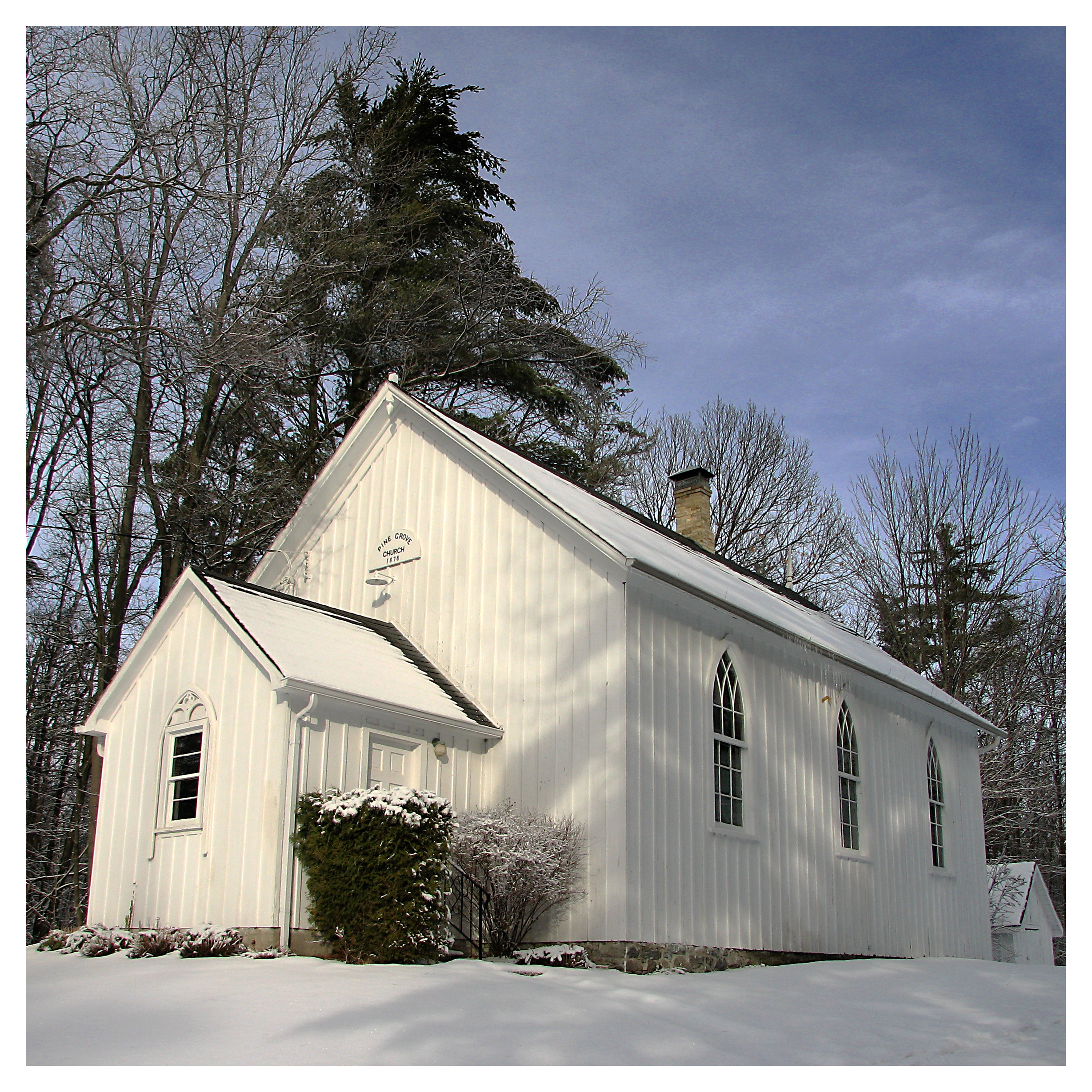 "The picturesque church was erected by pioneer families on land purchased from Edward and Mariah Major for one dollar and was originally known as the Wilderness Church. It was served by ministers from Uxbridge, Goodwood and Claremont. The cross of remembrance in the cemetery was raised in June 1953 to honour unknown and unmarked graves of the Pine Grove pioneers. The church was unused for many years, until the Pine Grove Church ladies auxiliary arranged to hold special services: Chirstmas, Thanksgiving and the spring. Pine Grove Church was recently the setting for scenes for the popular TV series Road to Avonlea. This sign was erected in loving memory of Della Johnson Moore long standing and guiding hand of Pine Grove Church." From the sign posted in front of the church Uxbridge Ontario Canada [my maps]